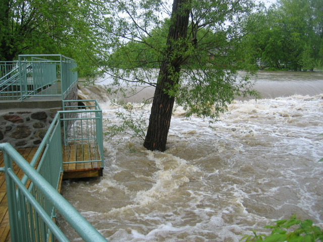 Rivière aux brochets in the regional county municipality of Brome-Missisquoi, Montérégie, Québec. During the summer 2006 floods.